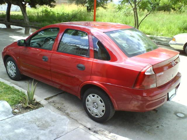 A 2006 Corsa saloon shown in red colour available in Latin America